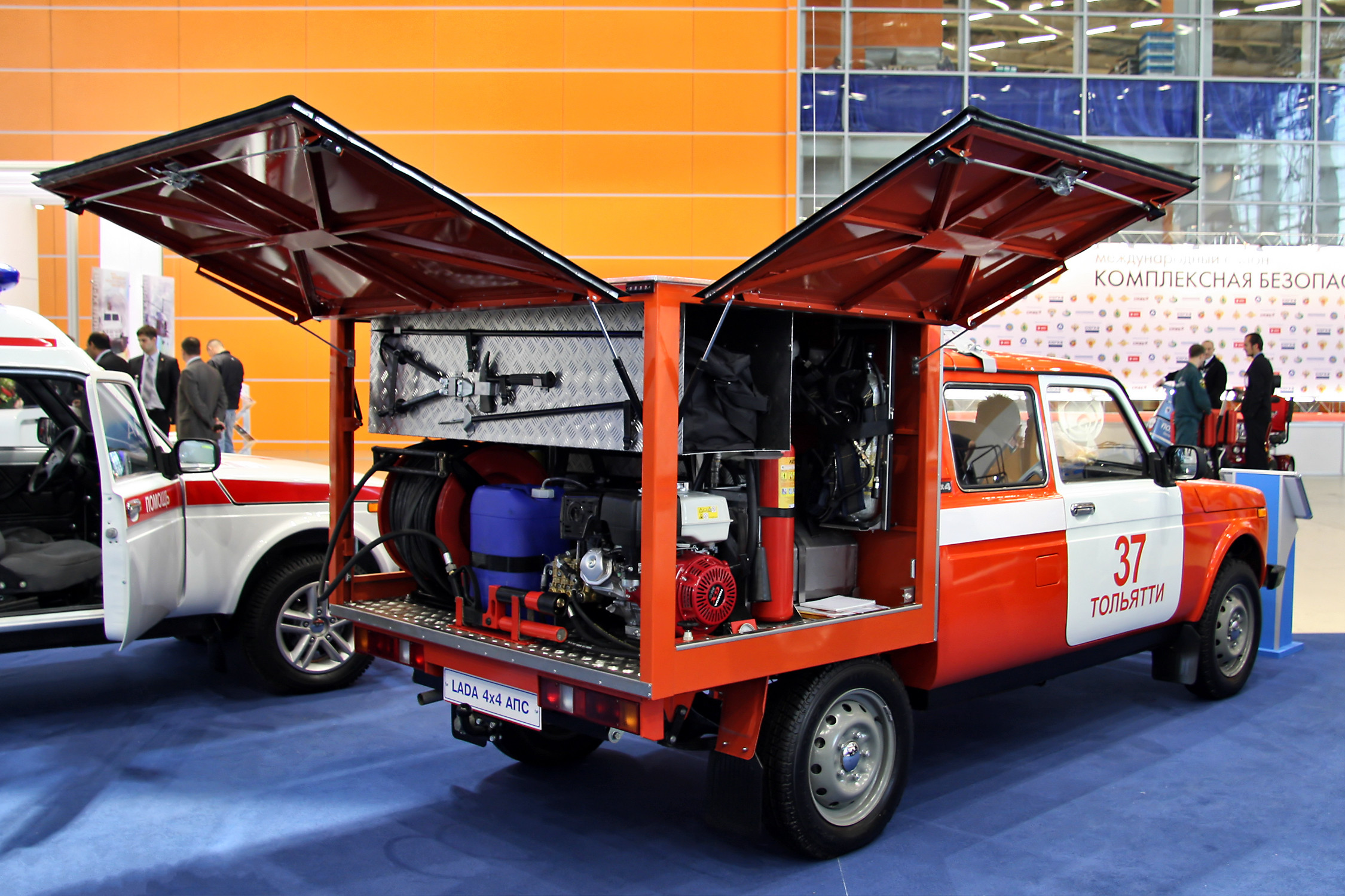 LADA 4x4 APS